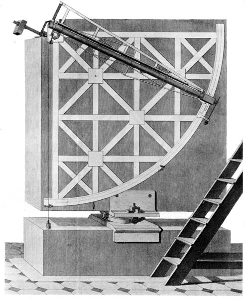 Mural Quadrant by Bird c. 1770